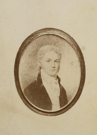 Portrait of Charles F. Mercer